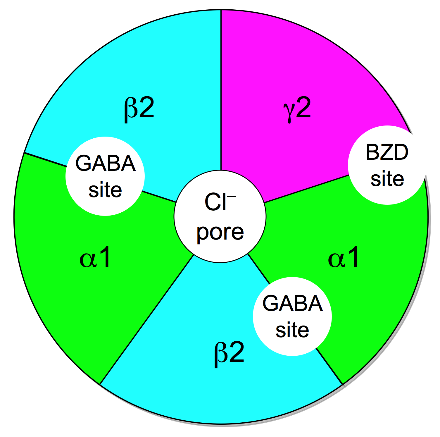 I made this. Anyone can use it.